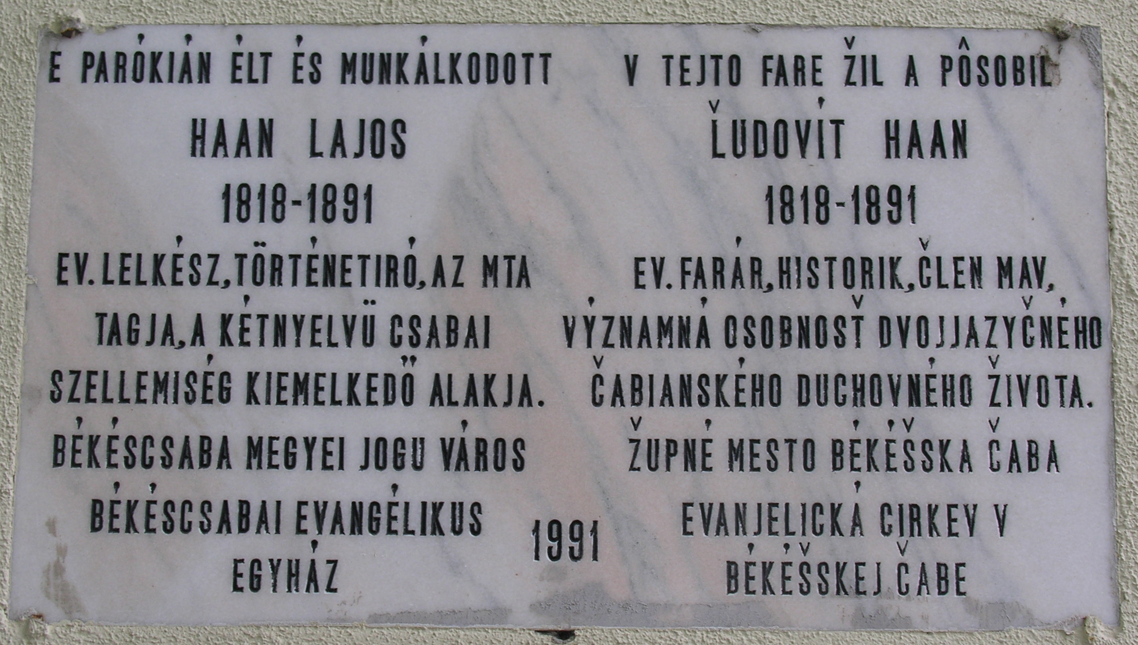 Plaque to Lajos Haan in Békéscsaba (Szent István tér 20.)